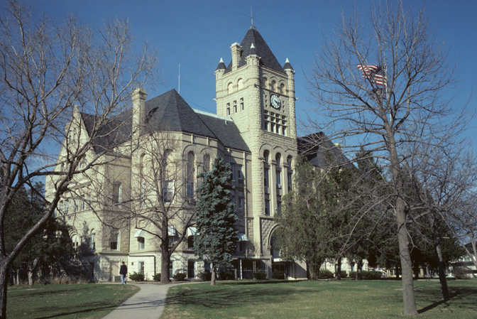 Front of the Gage County Courthouse, located at 612 Grant Street in Beatrice, Nebraska, United States. Built in 1890, it is listed on the National Register of Historic Places.